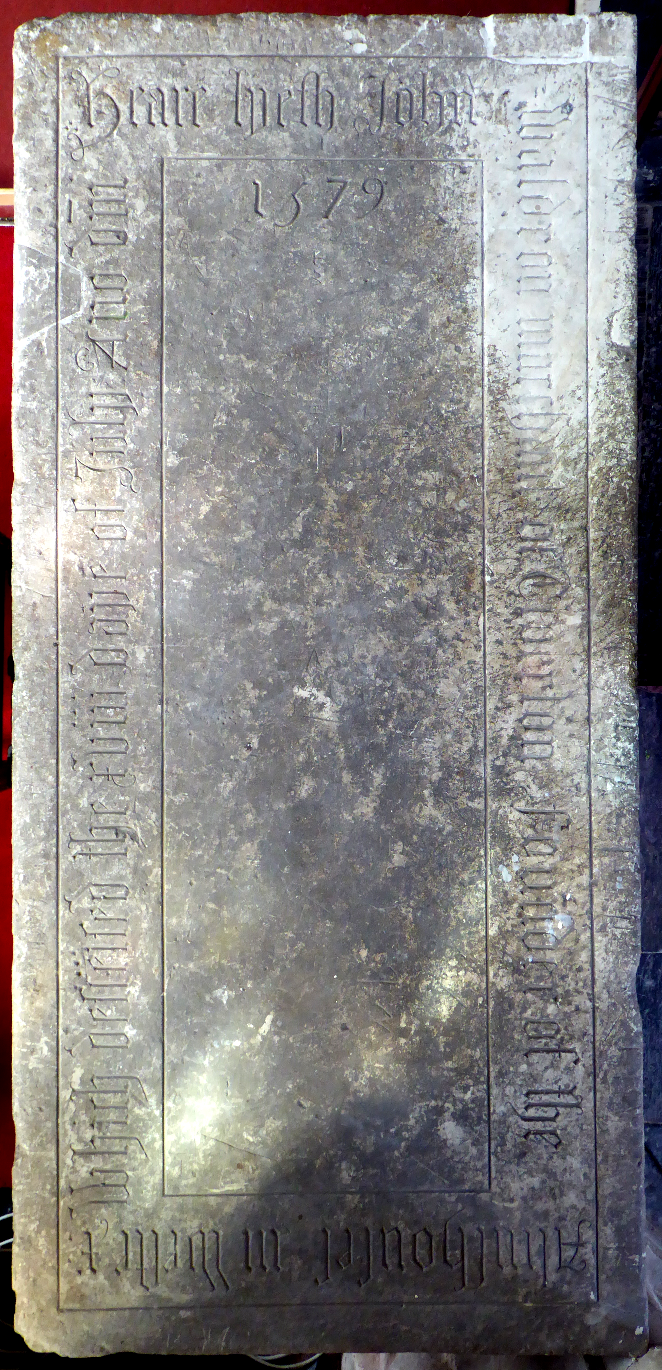 Ledger stone atop chest tomb in St Peter's Church, Tiverton, Devon, of John Waldron (d.1579), Merchant. Inscribed within a ledgr line: "Heare lyeth John Waldron Marchant of Tiverton founder of the almshouses in West x which deccessed the xviii daye of July An(n)o D(omi)ni 1579".